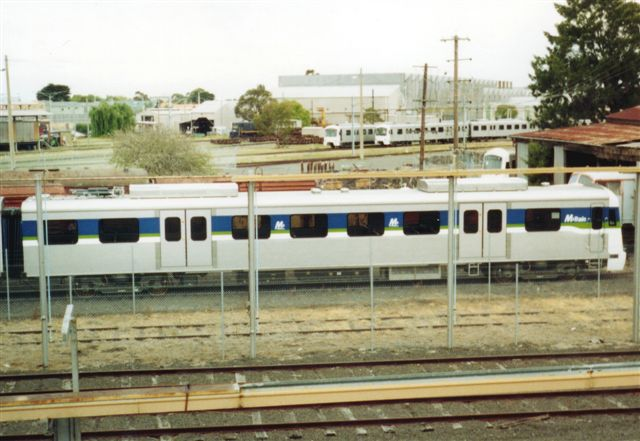 Same as Image:MTrainSiemens but taken using a telespotic lens from Mt Newport.